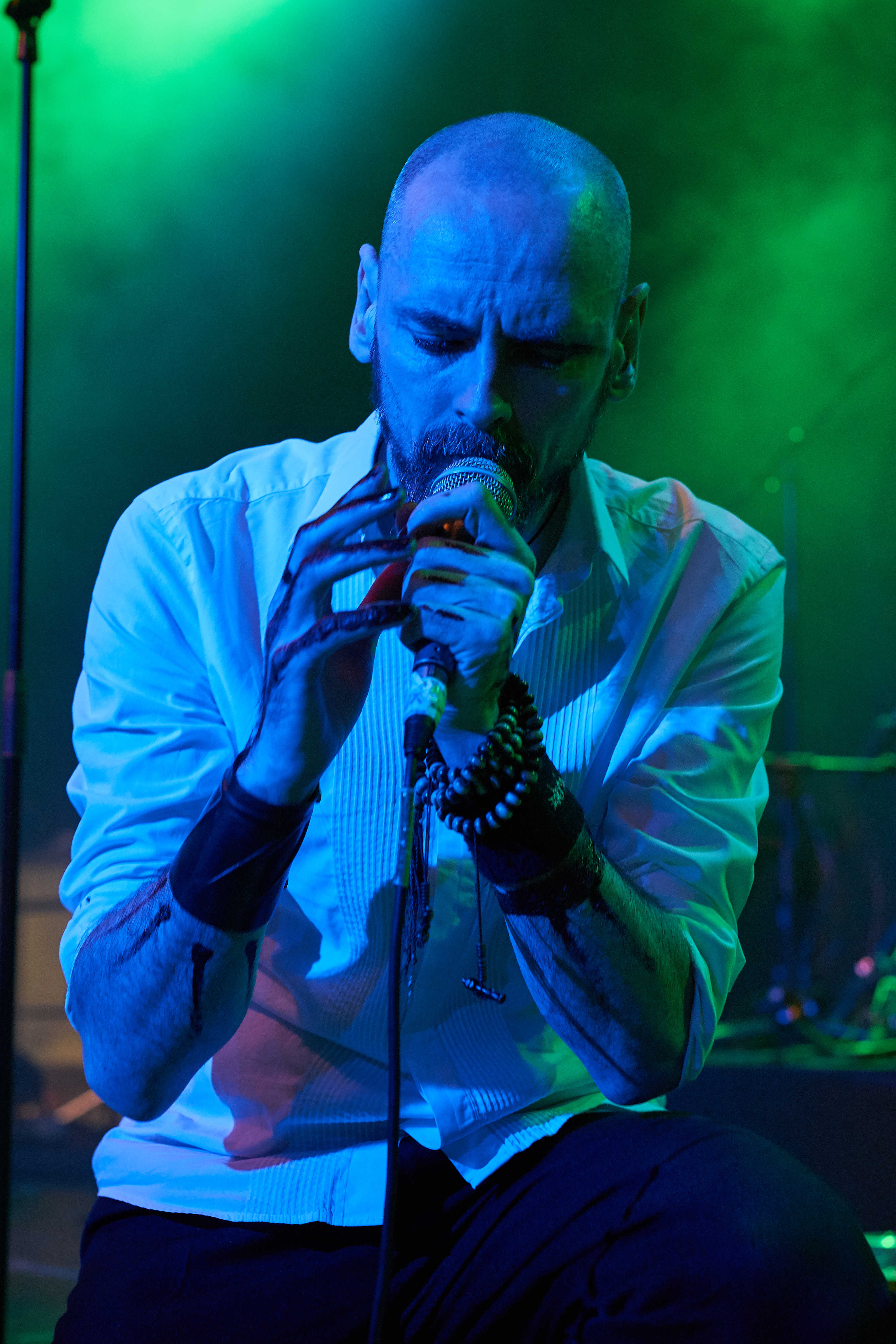 British band My Dying Bride at Hammer of Doom Festival, Würzburg, Posthalle, 21.11.2015 Festivalsommer This photo was created with the support of donations to Wikimedia Deutschland in the context of the CPB project "Festival Summer". Personality rights warning Although this work is freely licensed or in the public domain, the person(s) shown may have rights that legally restrict certain re-uses unless those depicted consent to such uses. In these cases, a model release or other evidence of consent could protect you from infringement claims.